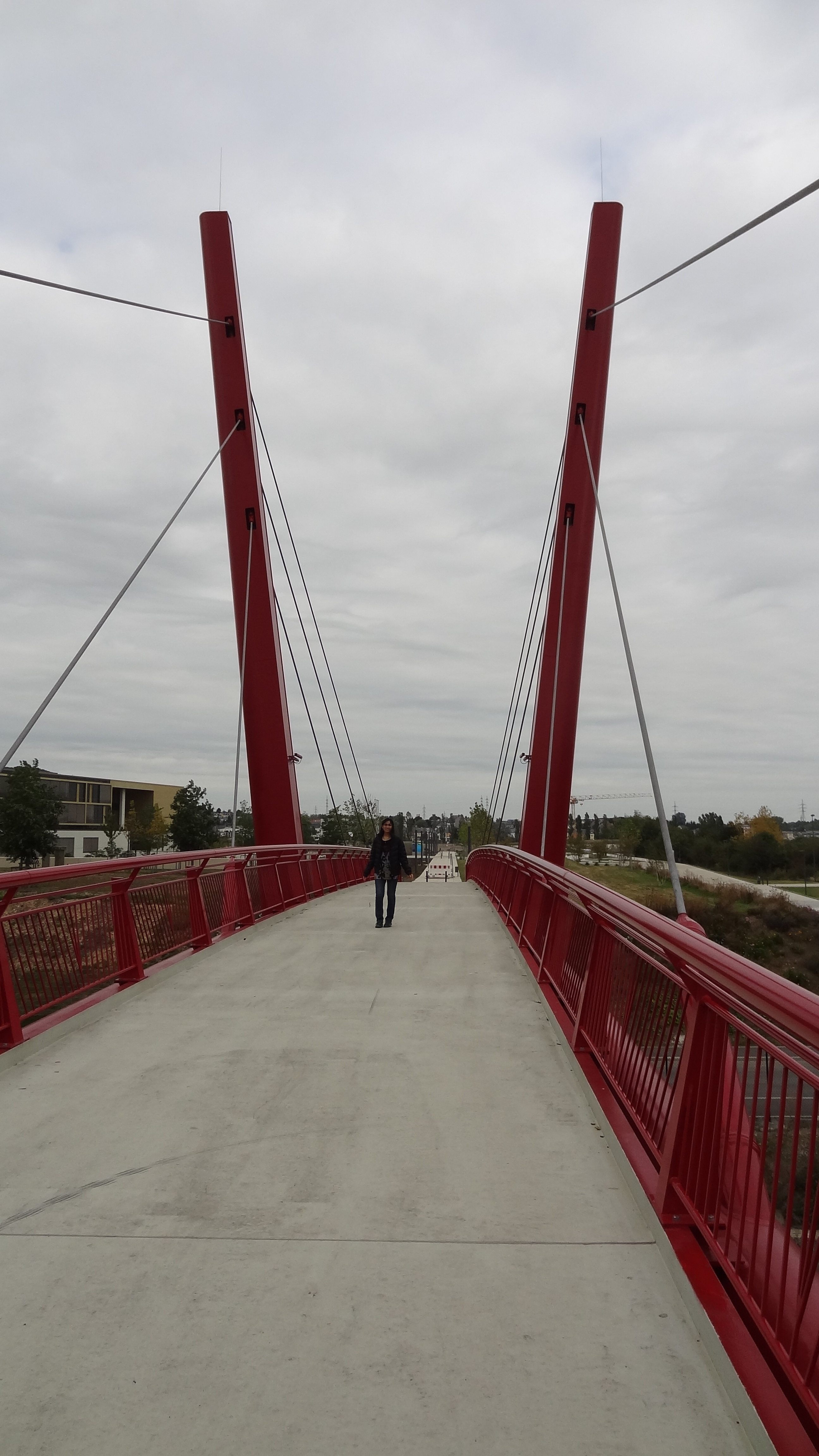 This is my own work.